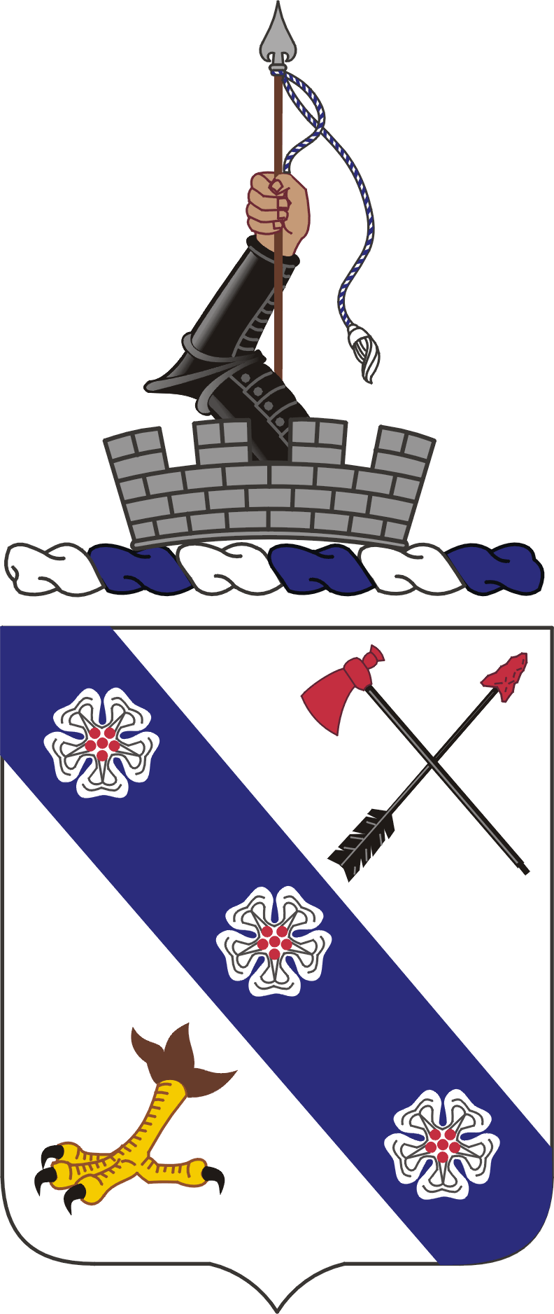 008th Infantry Regiment Coat of Arms